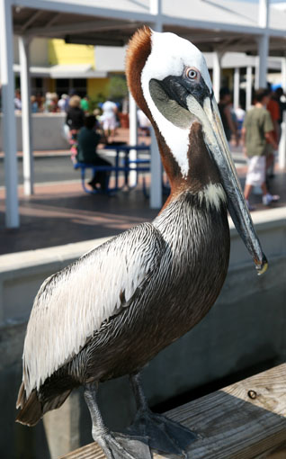 Brown Pelican on the St. Petersburg, Florida pier